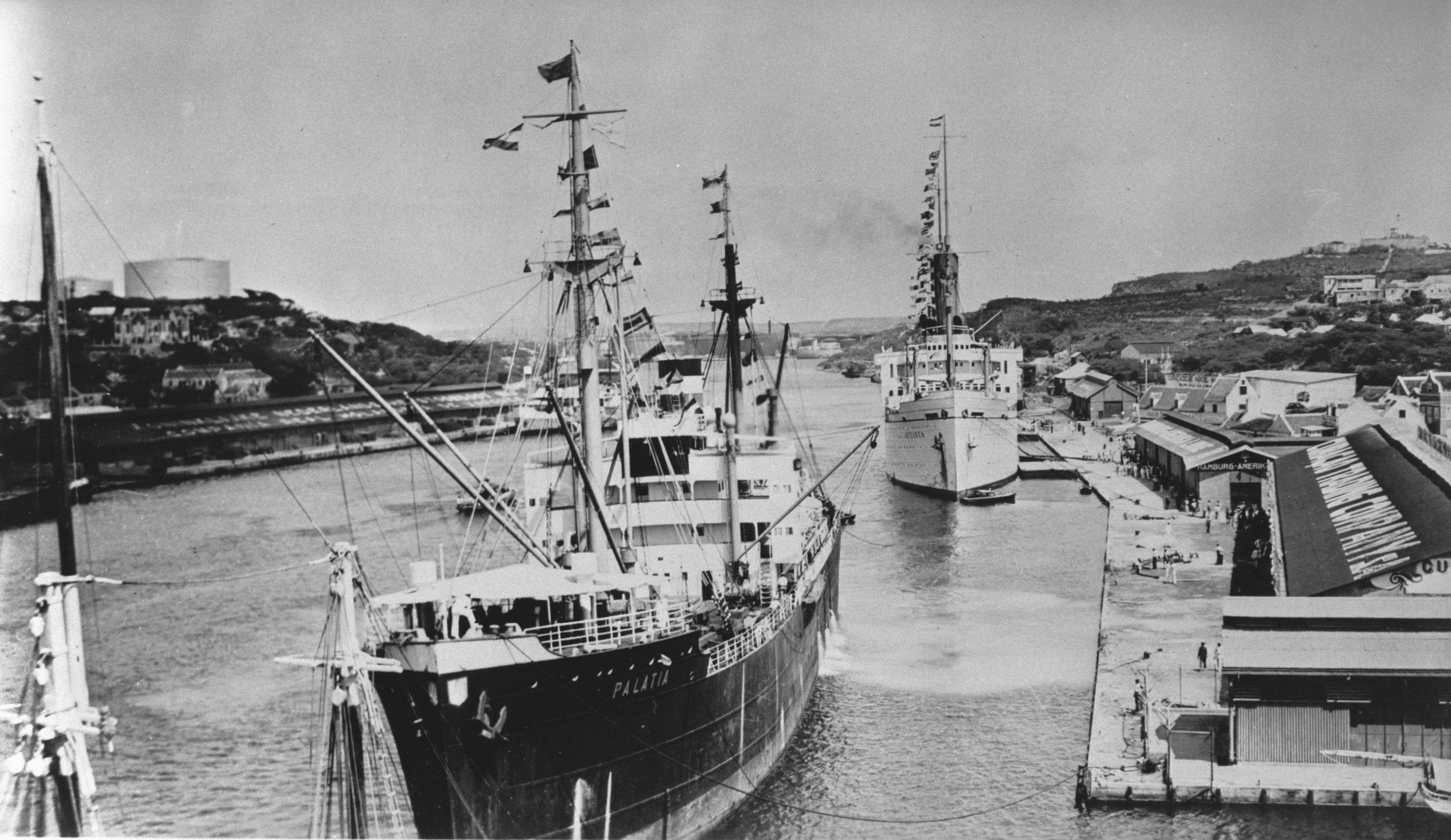 Netherlands West Indies. Curaçao. View of the St. Anna Bay harbour of Curacao's capital Willemstad with in the right foreground the docks of the Curacao Trading Company and another complex of that company along the waterfront on the left side of the bay. On the hills at left the oil-storage tanks for refuelling ships at Caracas bay. The ship in the foreground is the MS "Palatia", a German ship that from 1928 maintained a regular service of Hamburg-American Paketfahrt Actien-Gesellschaft (HAPAG) in the Caribbean. This ship was sold to the Soviet Union in 1940, then captured again by the Kriegsmarine in 1941 and sunk in October 1942. The photo therefore dates from before 1940, possibly also before 1939. The white passenger ship is the Steuben (ship, 1923). Originally built as the MUNCHEN. 13,325 gross tons, length 526.9ft x beam 65ft, two funnels, two masts, twin screw and a speed of 15 knots. Accommodation for 171-1st, 350-2nd and 558-3rd class passengers. Built by Vulcan Werke, Stettin, she was launched for North German Lloyd of Bremen on 25th Nov.1922. On 11th Feb.1930 she was gutted by fire at New York, sank in the Hudson River, was refloated, patched up at Brooklyn and sailed to Bremen in ballast. Rebuilt at Bremen to 14,690 gross tons with accommodation for 214-cabin, 358-tourist and 221-3rd class passengers, converted from coal to oil fuel and renamed GENERAL VON STEUBEN. She resumed Bremen - Southampton - New York sailings on 5th Feb.1931 and started her last voyage on this route on 16th Nov.1934. Subsequently used as a cruise ship, in 1938 she was renamed STEUBEN. In 1939 she became a German Navy accommodation ship at Kiel and in Aug.1944 started use as a transport for the wounded.